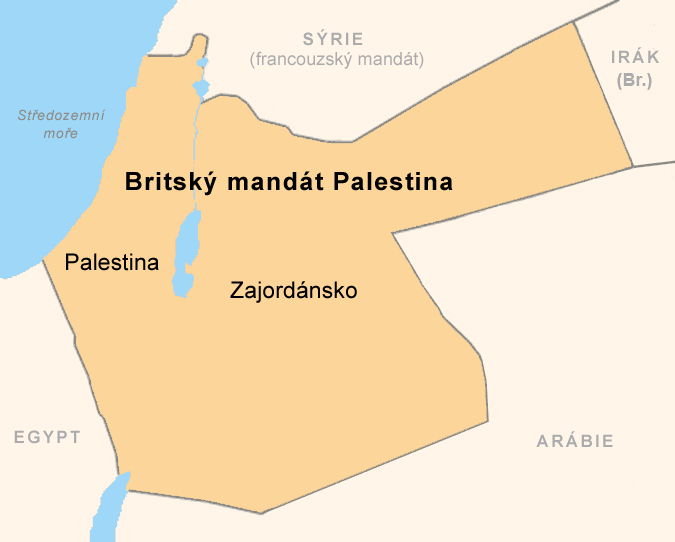 British Mandate of Palestine, 1920s. Created by modification of public domain image Image:BritishMandatePalestine1920.jpg. Modifications consisted of enlarging the font of two words and converting to PNG.